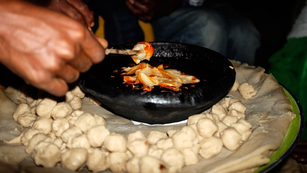 Eating T'ihlo in Ethiopia